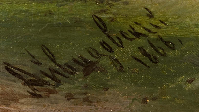 Ivan Aivazovsky, 1866 signature in Russian